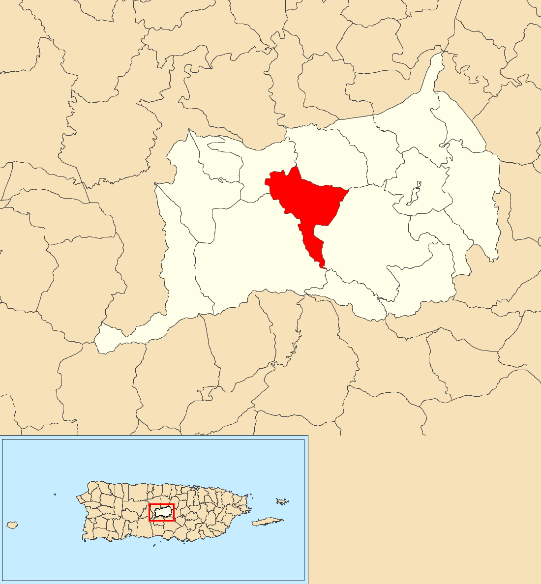 Pellejas, Orocovis, Puerto Rico locator map